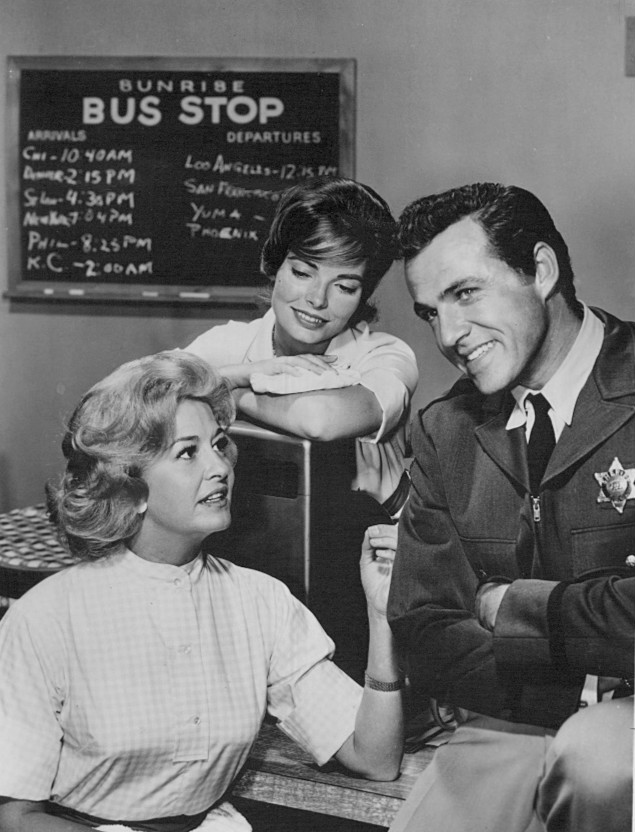 Photo of Marilyn Maxwell, Joan Freeman and Rhodes Reason from Bus Stop (TV series). The item has no copyright markings on it as can be seen in the links above.